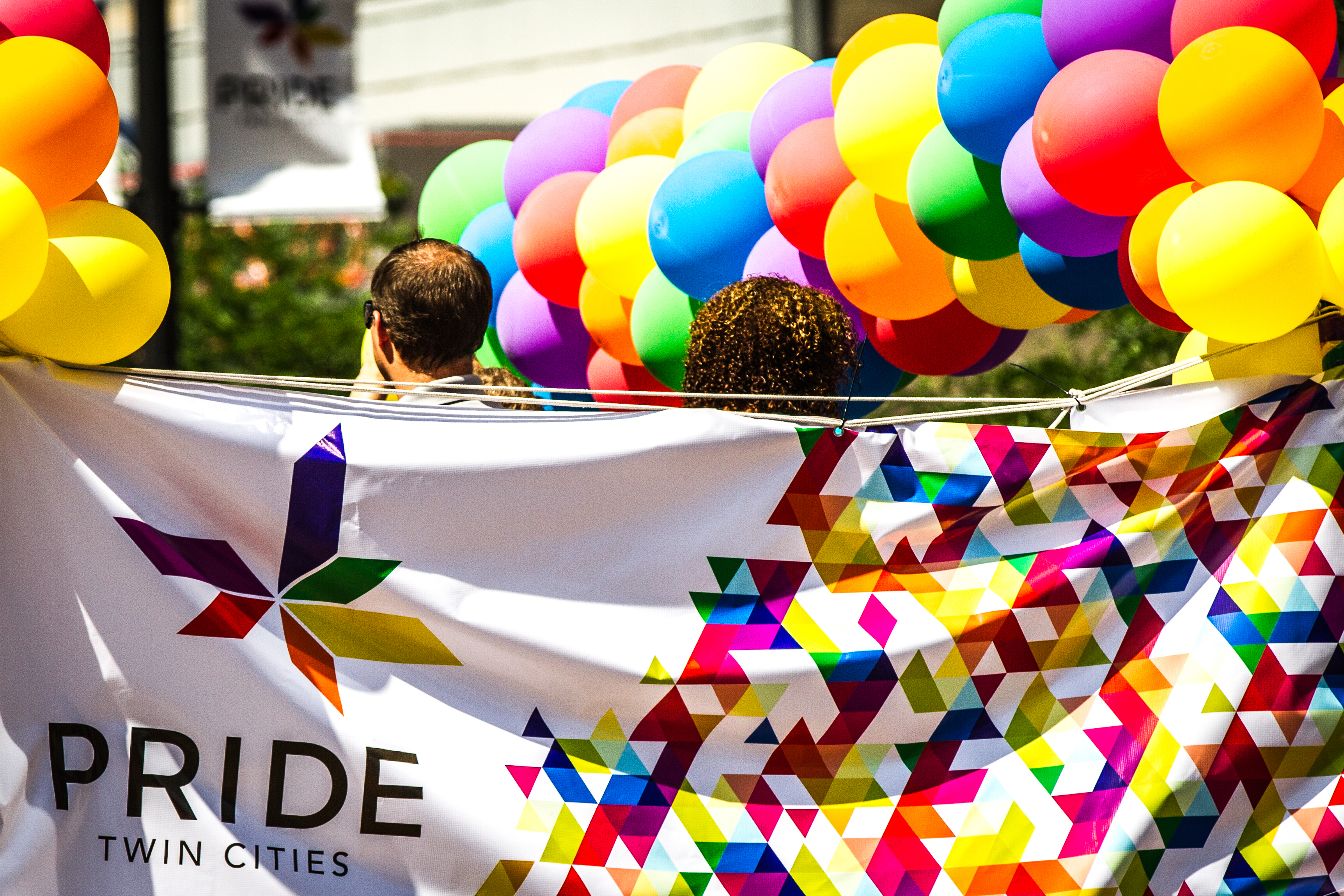 The banner for Twin Cities Pride and rainbow-colored balloons.